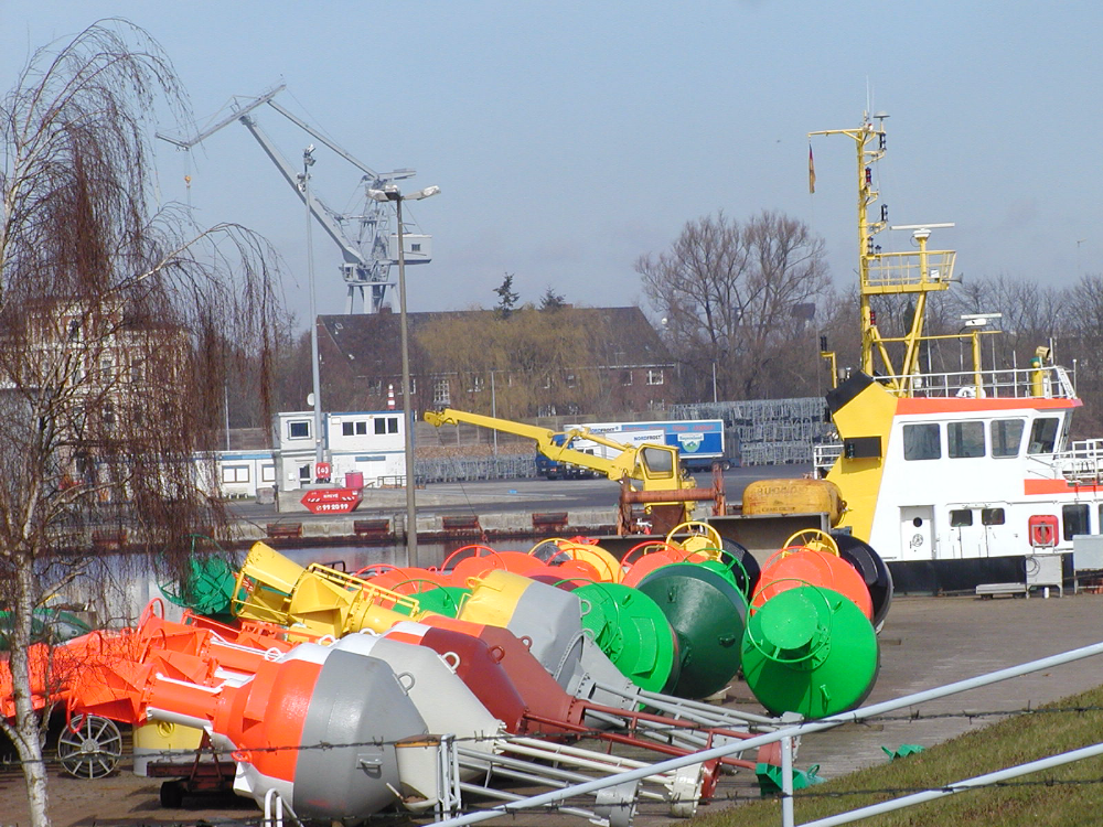 Buoy depot with a buoy tender, WSA (Waterways and Shipping Authority) of Wilhelmshaven, Germany